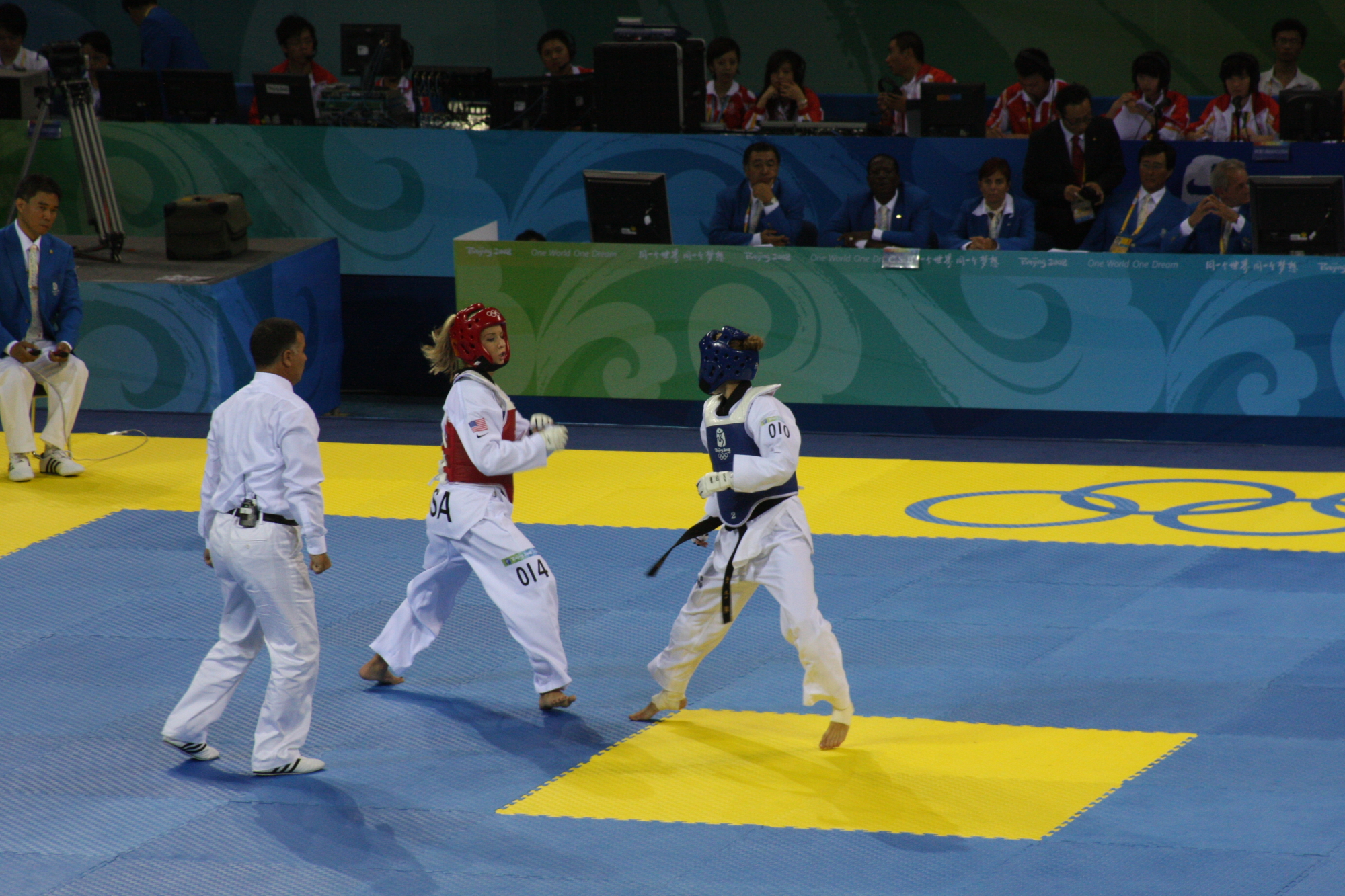 2008 Summer Olympics Taekwondo - Charlotte Craig (USA, red) v. Manuela Bezzola (SUI, blue)